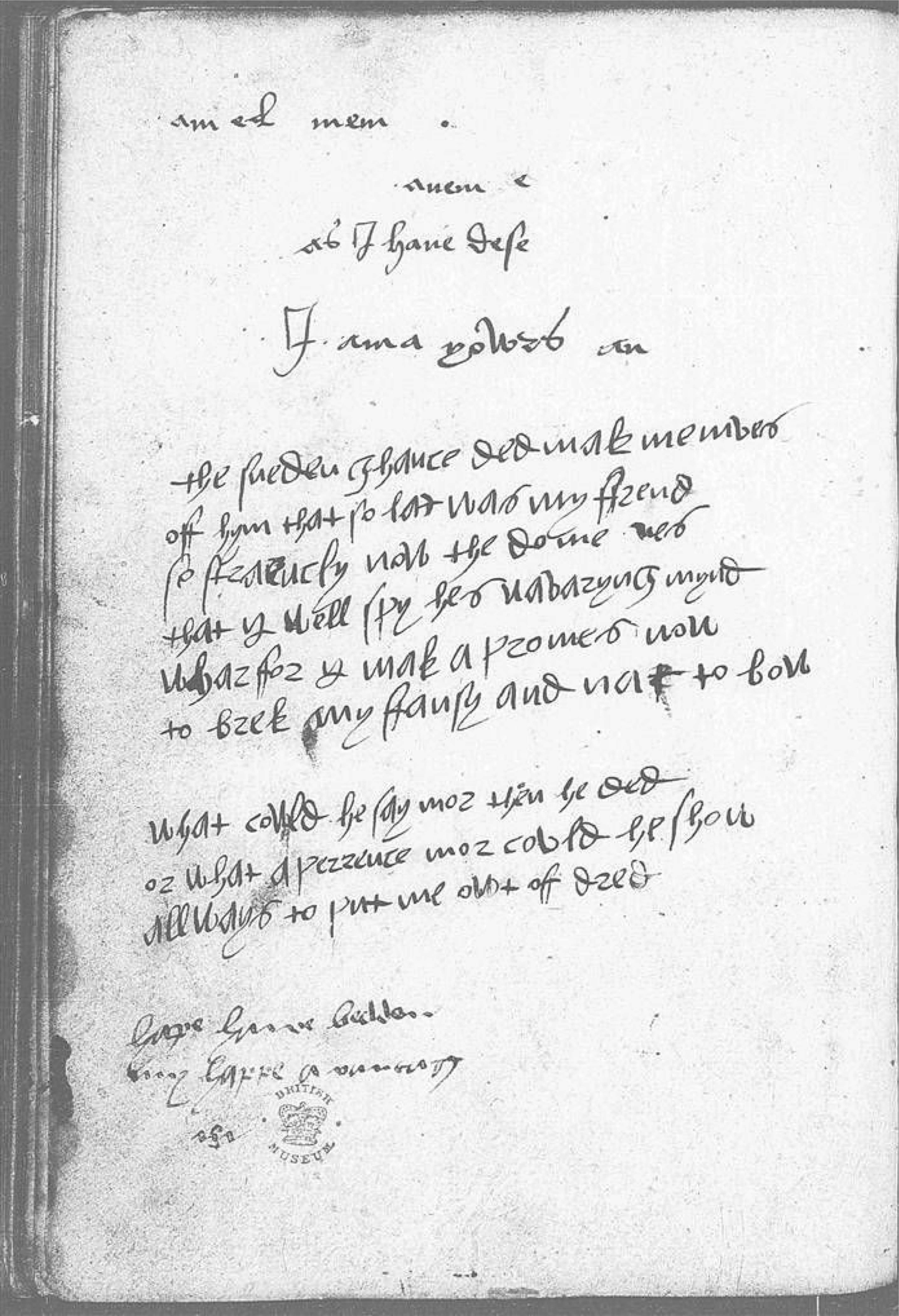 Used with permission. Courtesy of Adam Matthew Digital ( and the Devonshire Manuscript Editorial Group ( Used with permission. Courtesy of Adam Matthew Digital ( and the Devonshire Manuscript Editorial Group (